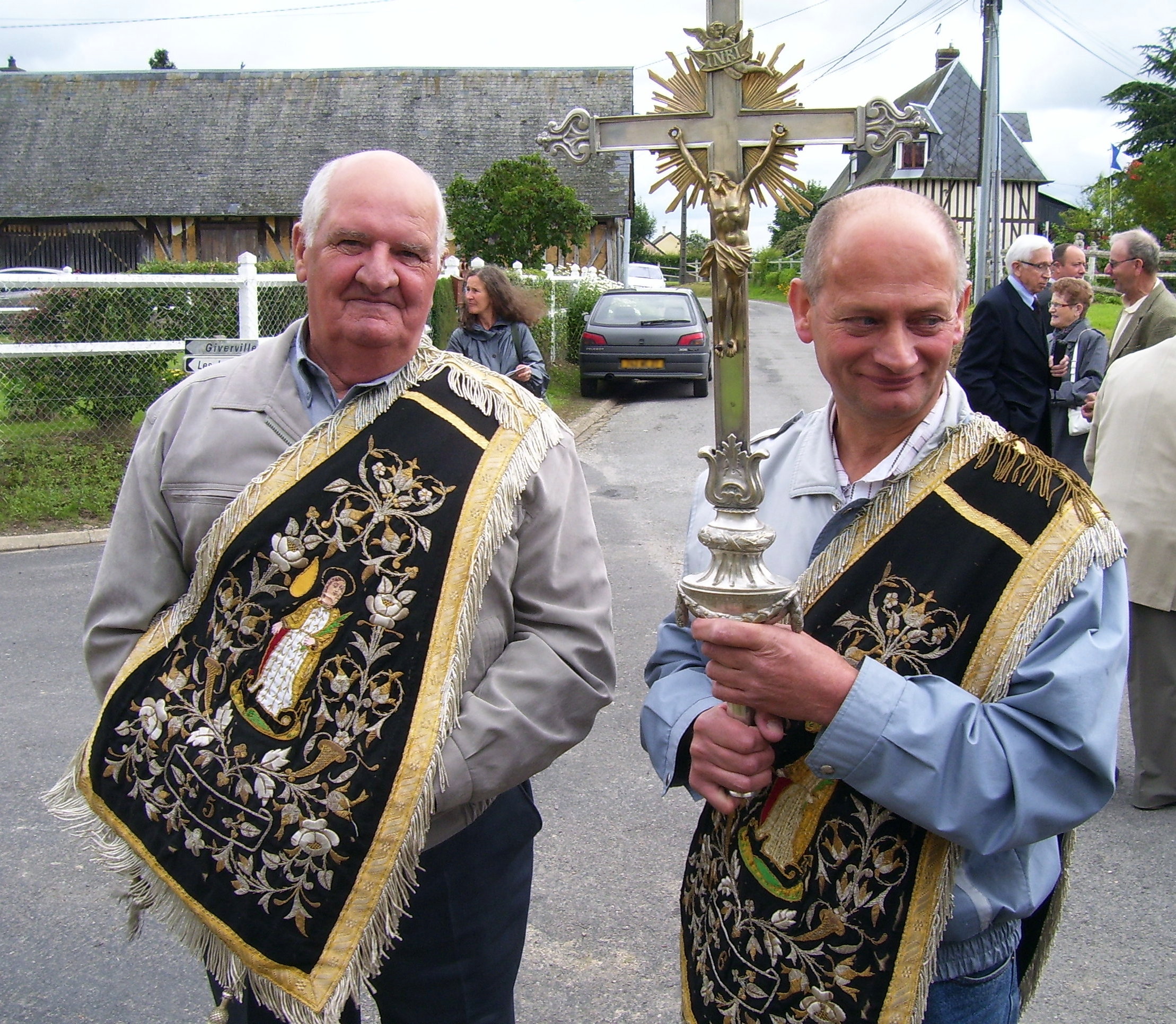 Two members of the confrérie de charité of Giverville, assist at the ceremony of the Bastille Day in Morsan.